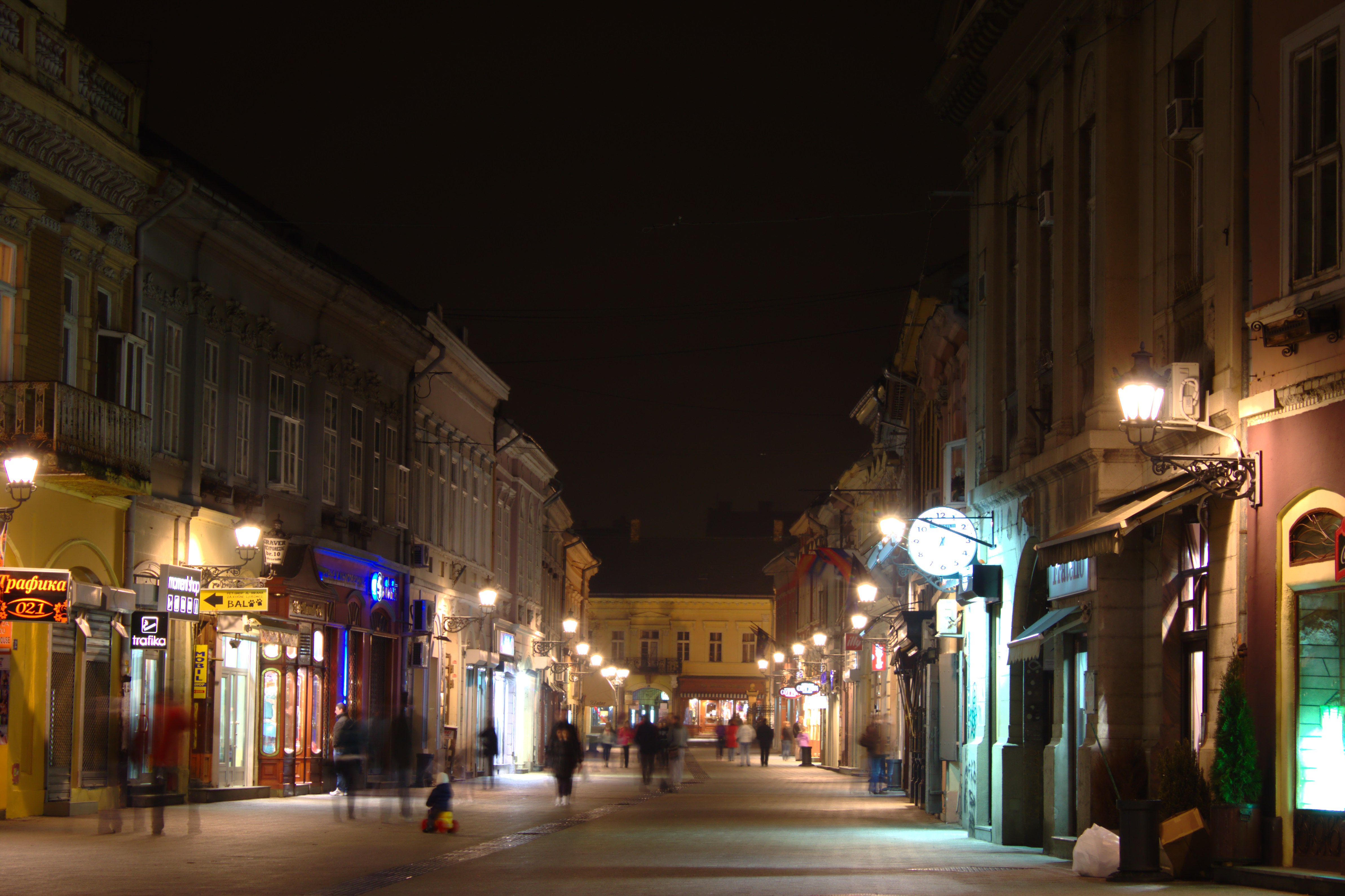 Dunavska street in Novi Sad by night, Serbia